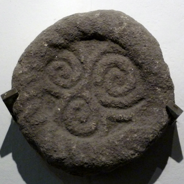 Auspicious triple spiral carving from the Santa Tegra hill-fort (A Guarda, Galicia).